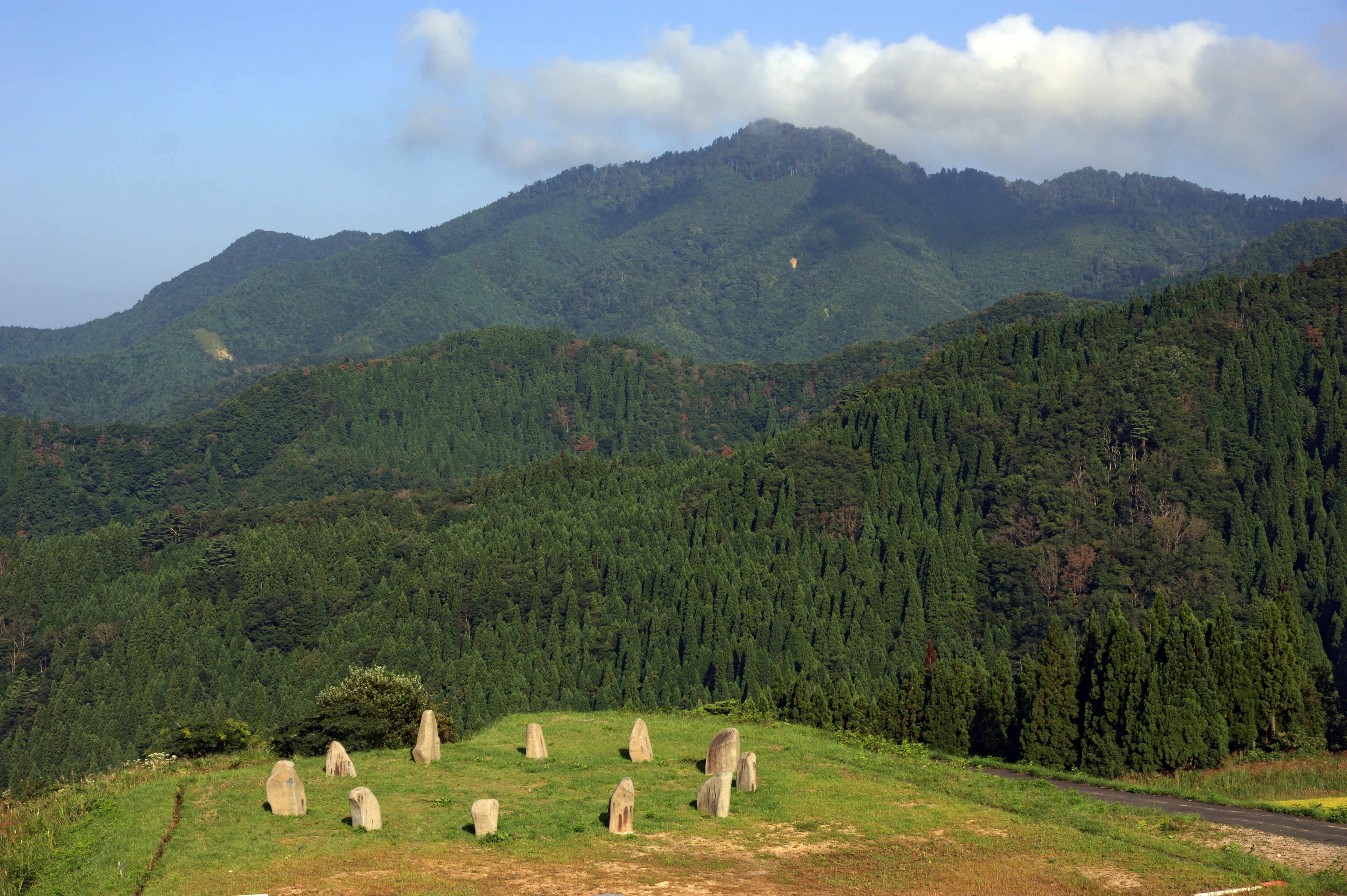 Mt. Jinbachi in Wakasa, Tottori prefecture, Japan